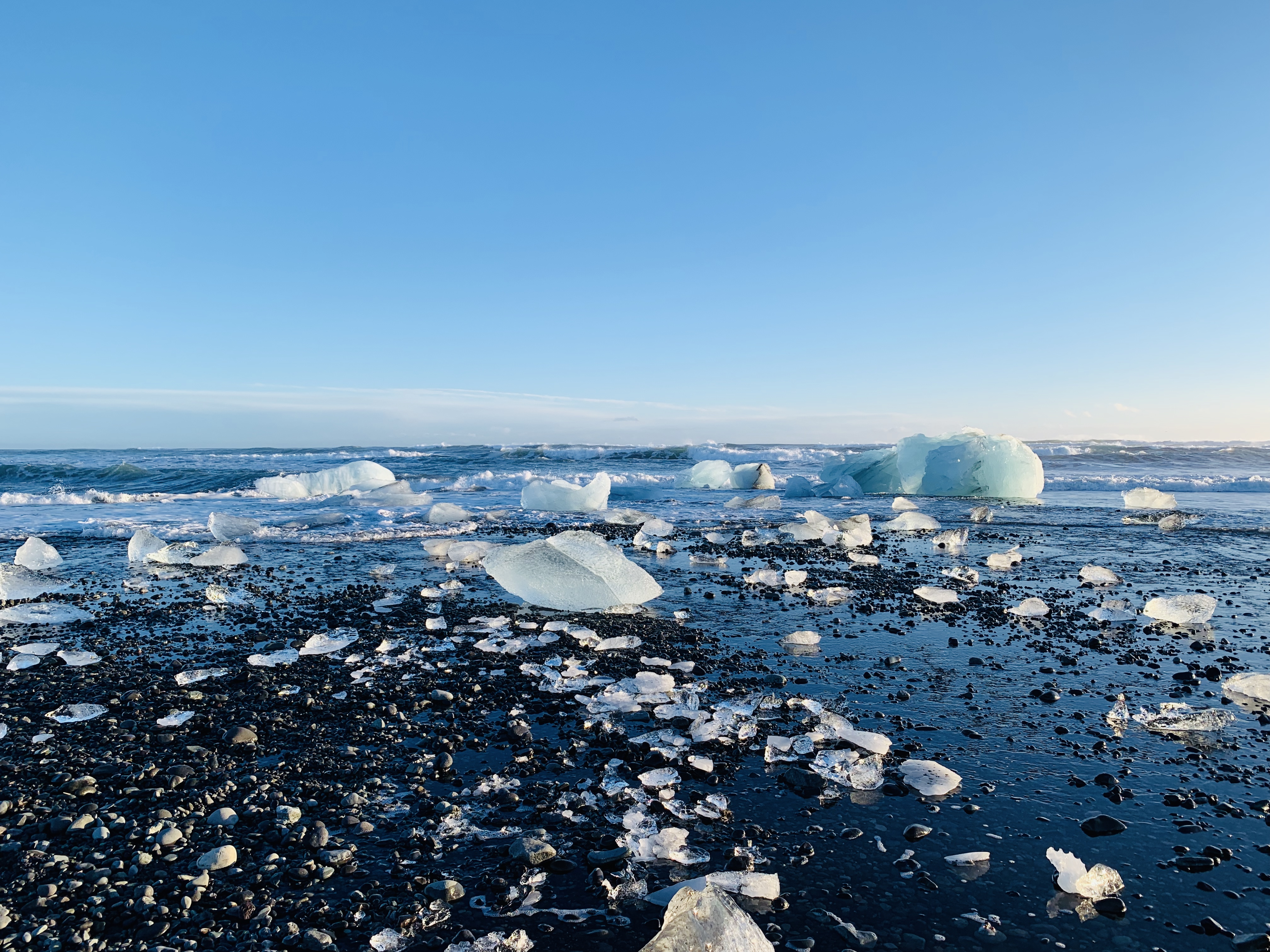 Ice on Jökulsárlón. This one is the most recently picture from Jökulsárlón.